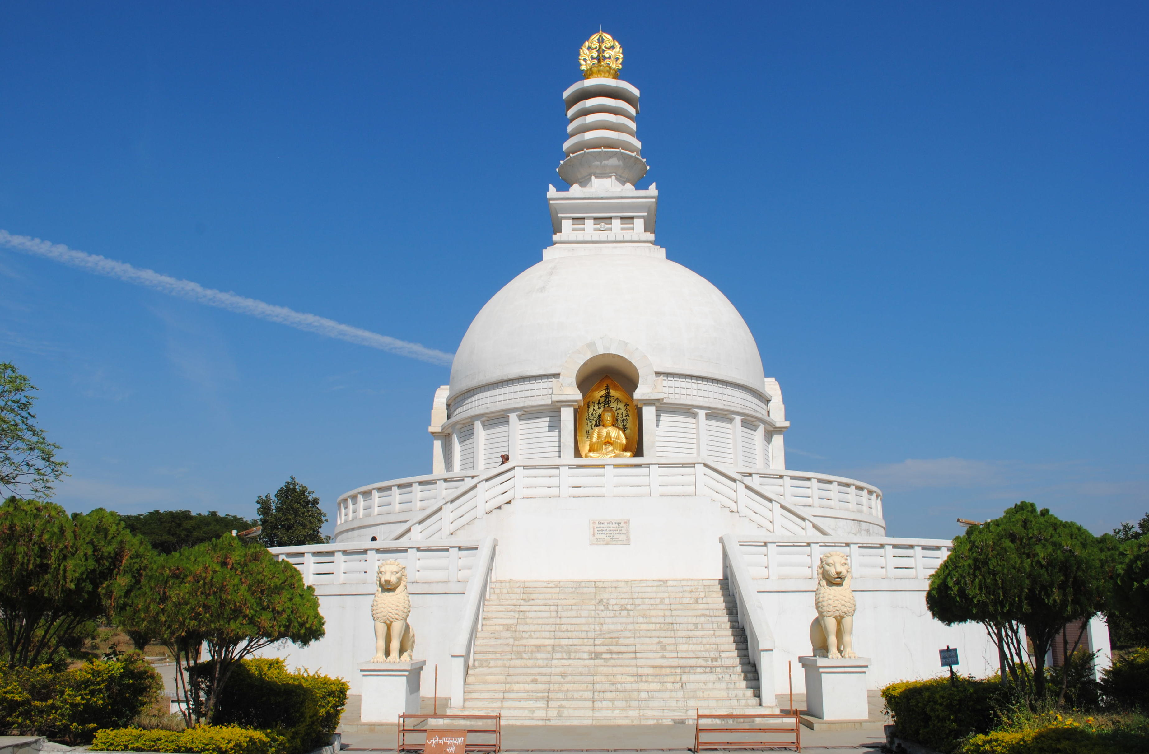 Vishwa Shanti Stupa was a dream of Fujii guruji as called by M.K. Gandhi. It is beside Gitai Mandir. It is a large stupa of white color. Statues of Buddha are mounted on stupa in four directions. It also has a small Japanese Buddhist temple with a large park.